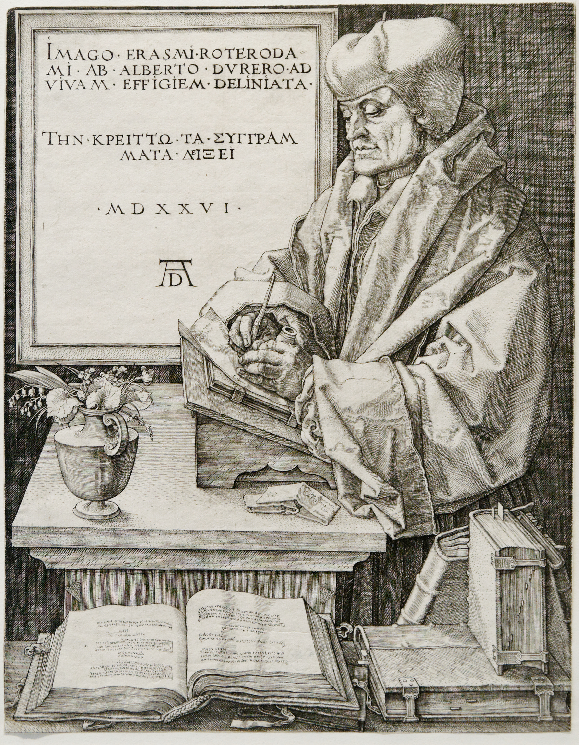 Portrait of Desiderius Esrasmus, engraved in Nuremberg, Germany.